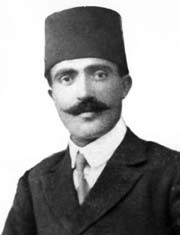 Riza Bey (Rıza Kotan)